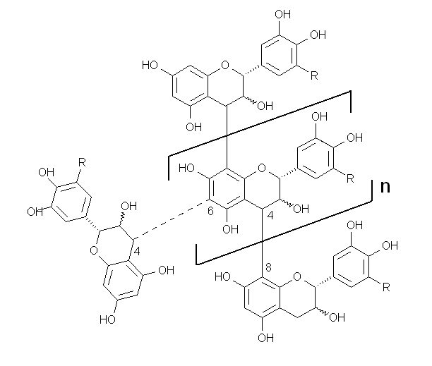 Schematic diagram showing a condensed tannin molecule